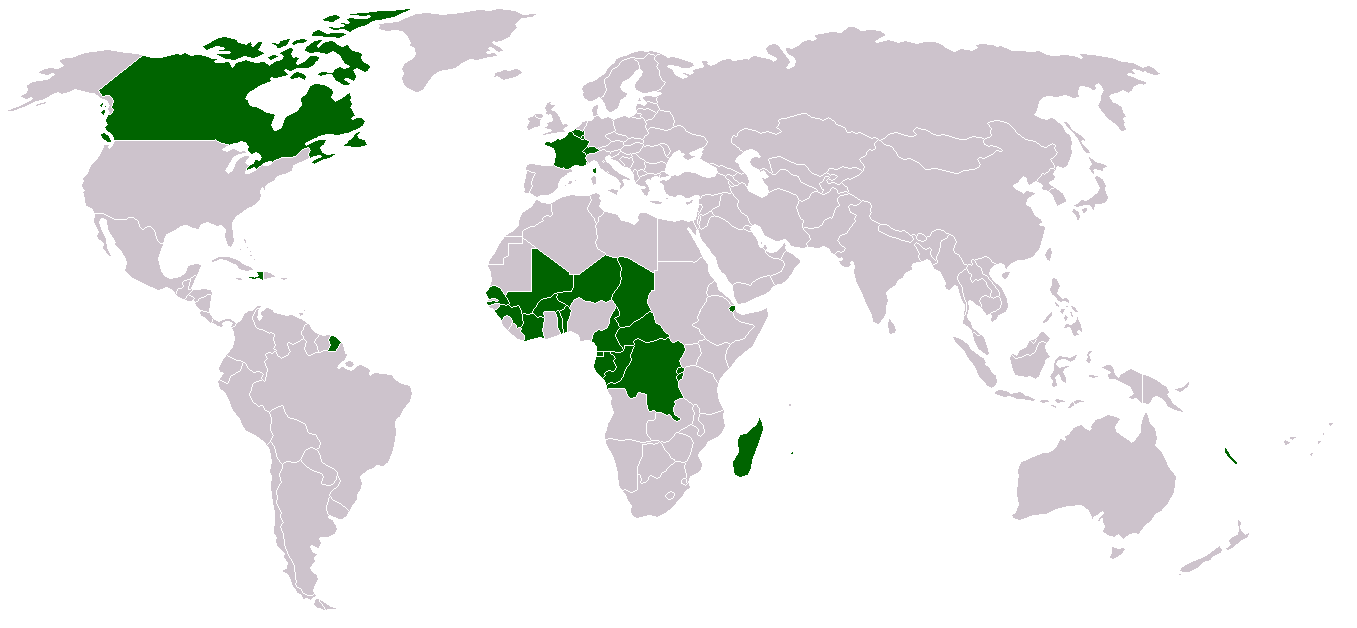 Plain map of the world with countries where French is an official language marked in green.